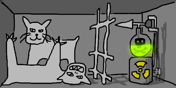 Schrödinger's cat